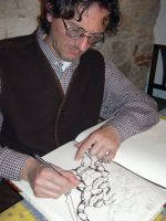 Giuliano Piccininno